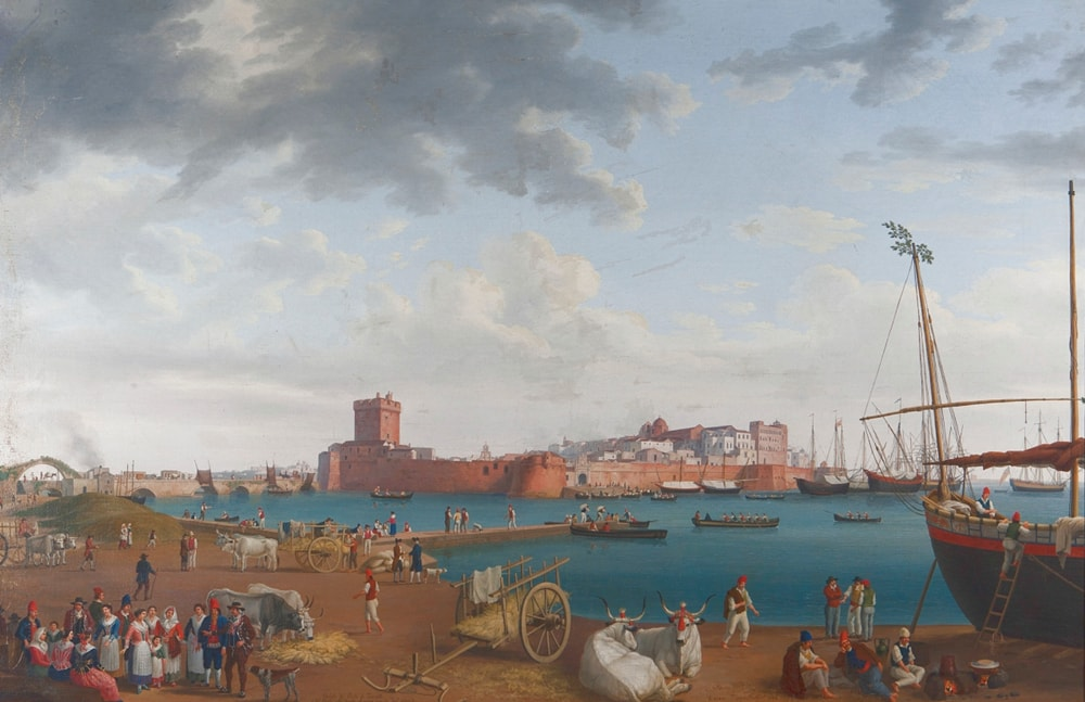 Jakob Philipp Hackert, Port of Taranto (1789)